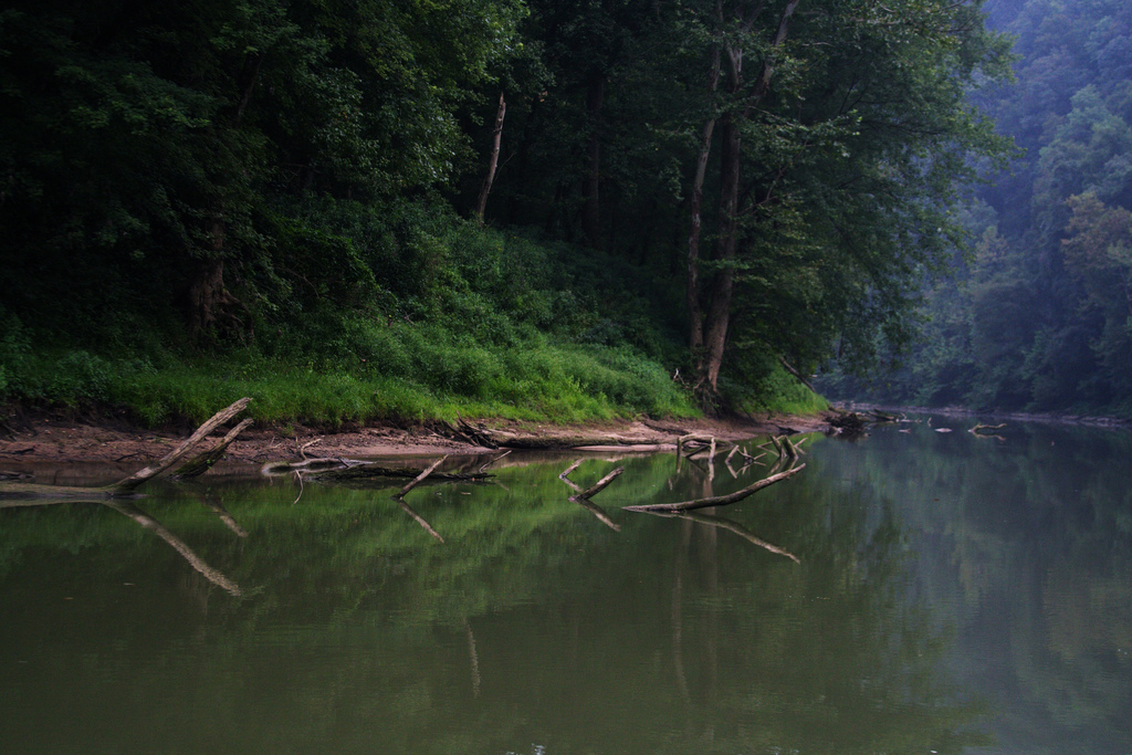 Green River in Kentucky near Mammoth Cave National Park